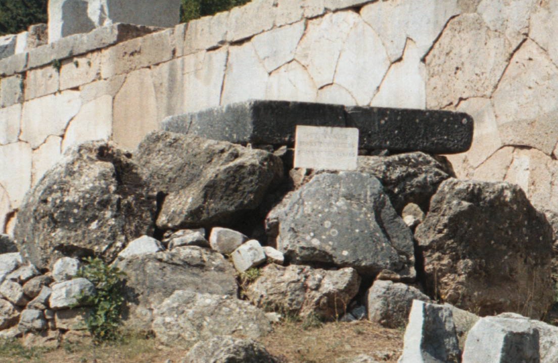 Naxos Sphinx pillar base and inscription